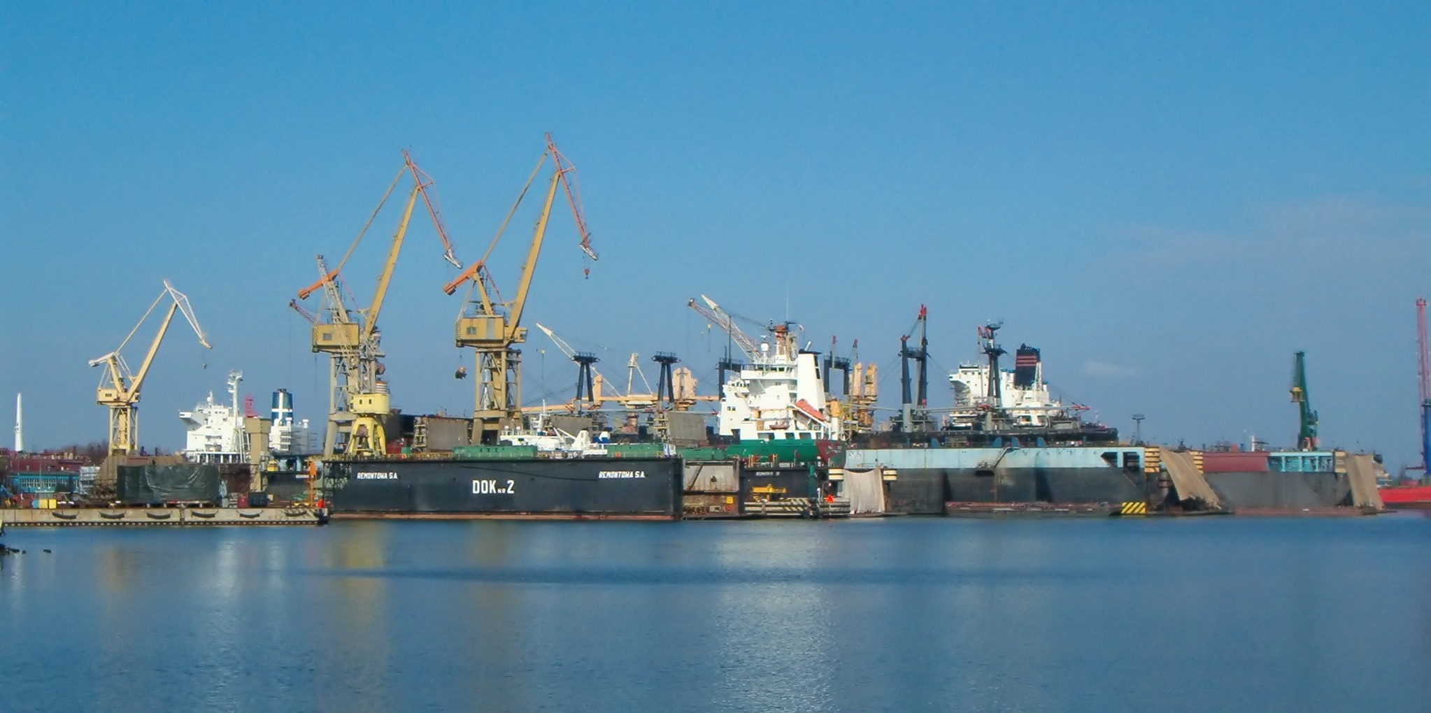 Gdansk Shiprepair Yard's Remontowa floating docks